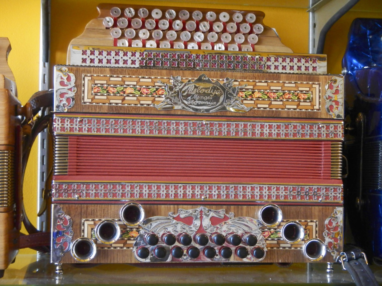 Smythe's Accordion Center, Oakland CA